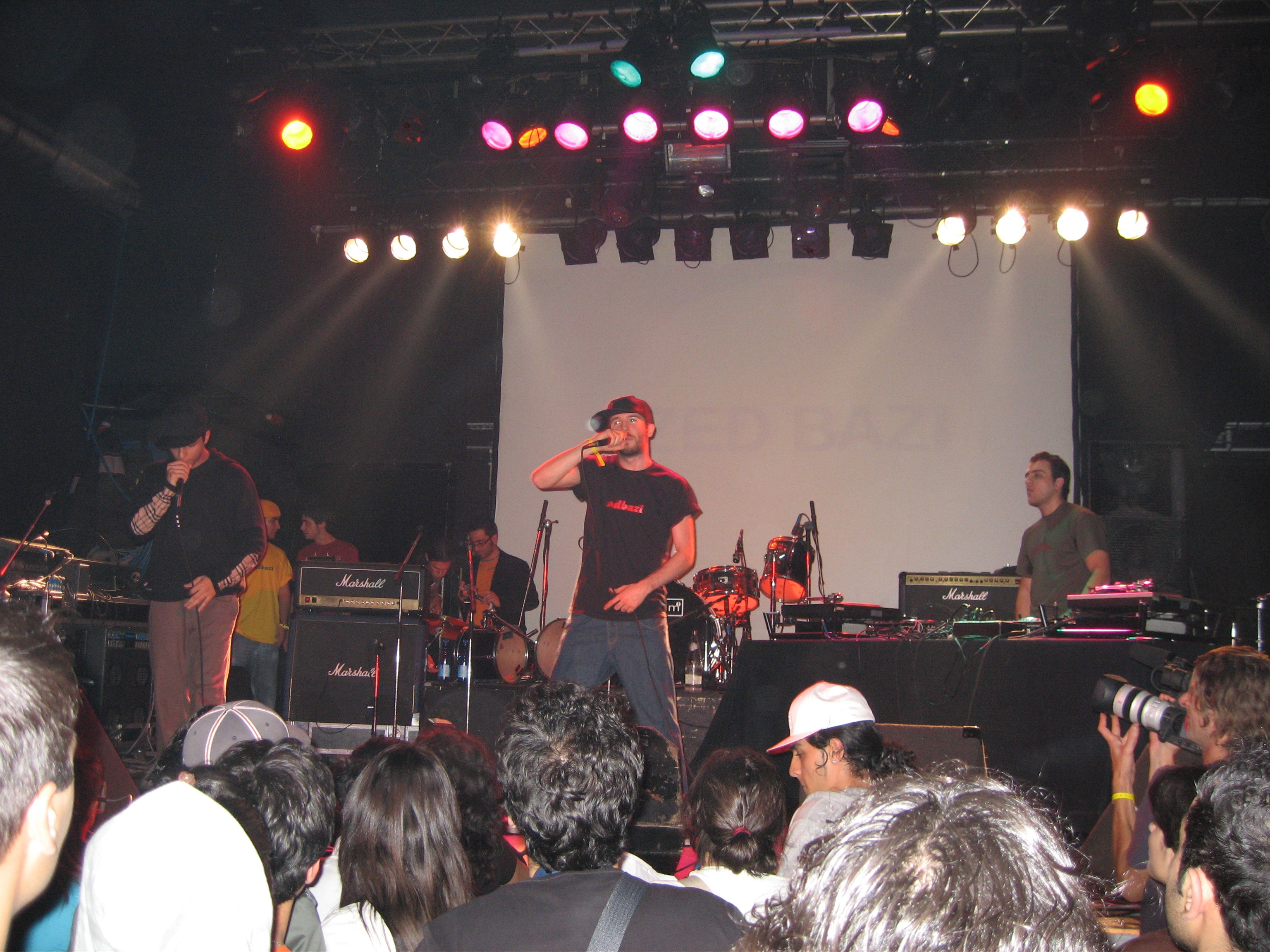 Persian rap Band Zed Bazi in Iranian Intergalactic Music Festival, 22nd Oktober 2006, Zaandam, the Netherlands. Picture taken by Babak Hosseinkhani and provided for Wikicommons by Mani Parsa.